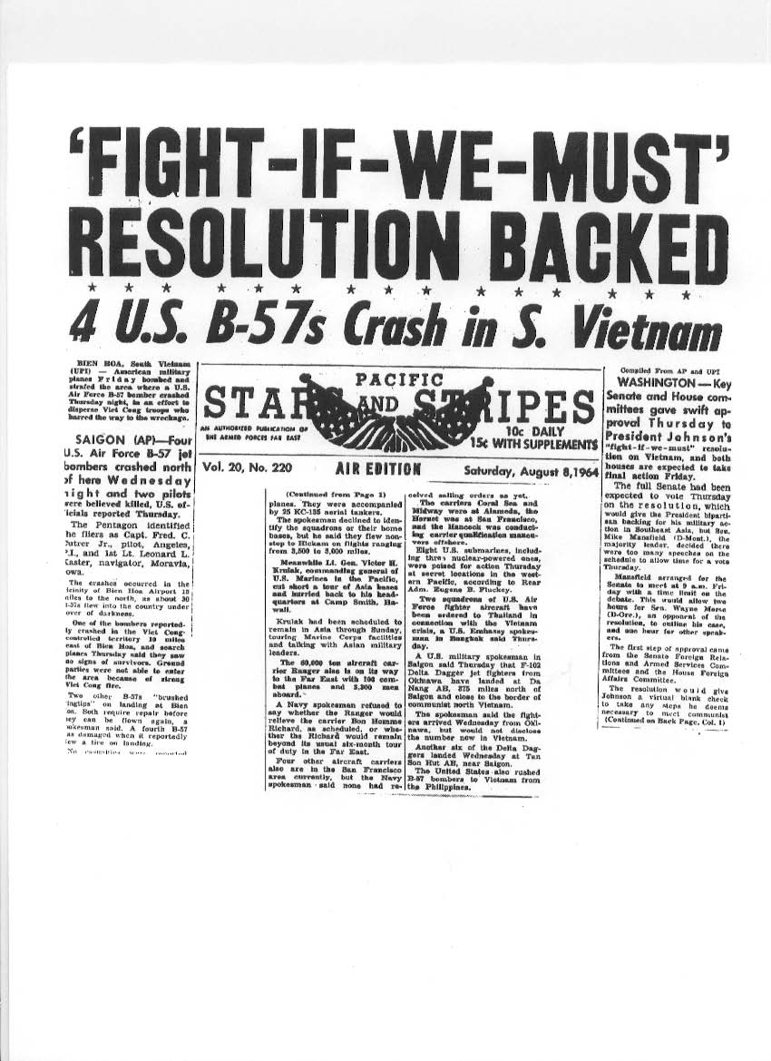 Congress passed the Gulf of Tonkin Resolution